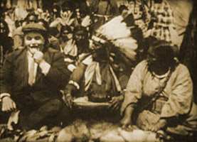 A screenshot from the silent film Fatty and Minnie He-Haw (1914).